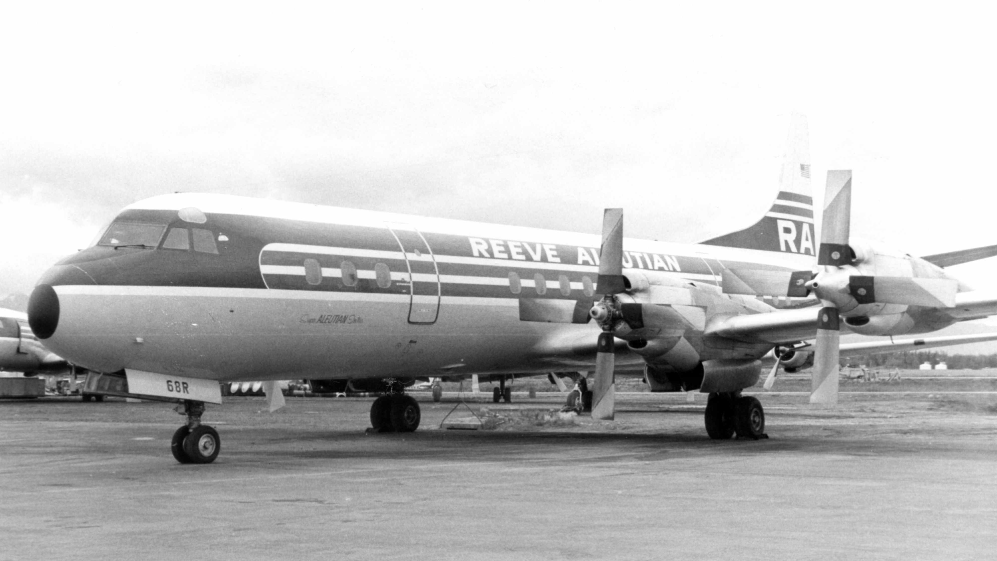 United States of America, Alaska, Merrill Field. Reeve Aleutian Airways Lockheed L-188C Electra N1968R c/n 2007 delivered on November 25, 1959 to Qantas as VH-ECC Endeavour. Sold to Air New Zealand in December 1966 as ZK-CLX Akaron. Sold to Reeve Aleutian Airways on February 17, 1968. Withdrawn from use in October 1984. Sold to Air Spray in June 2001 and registered C-GHZI.